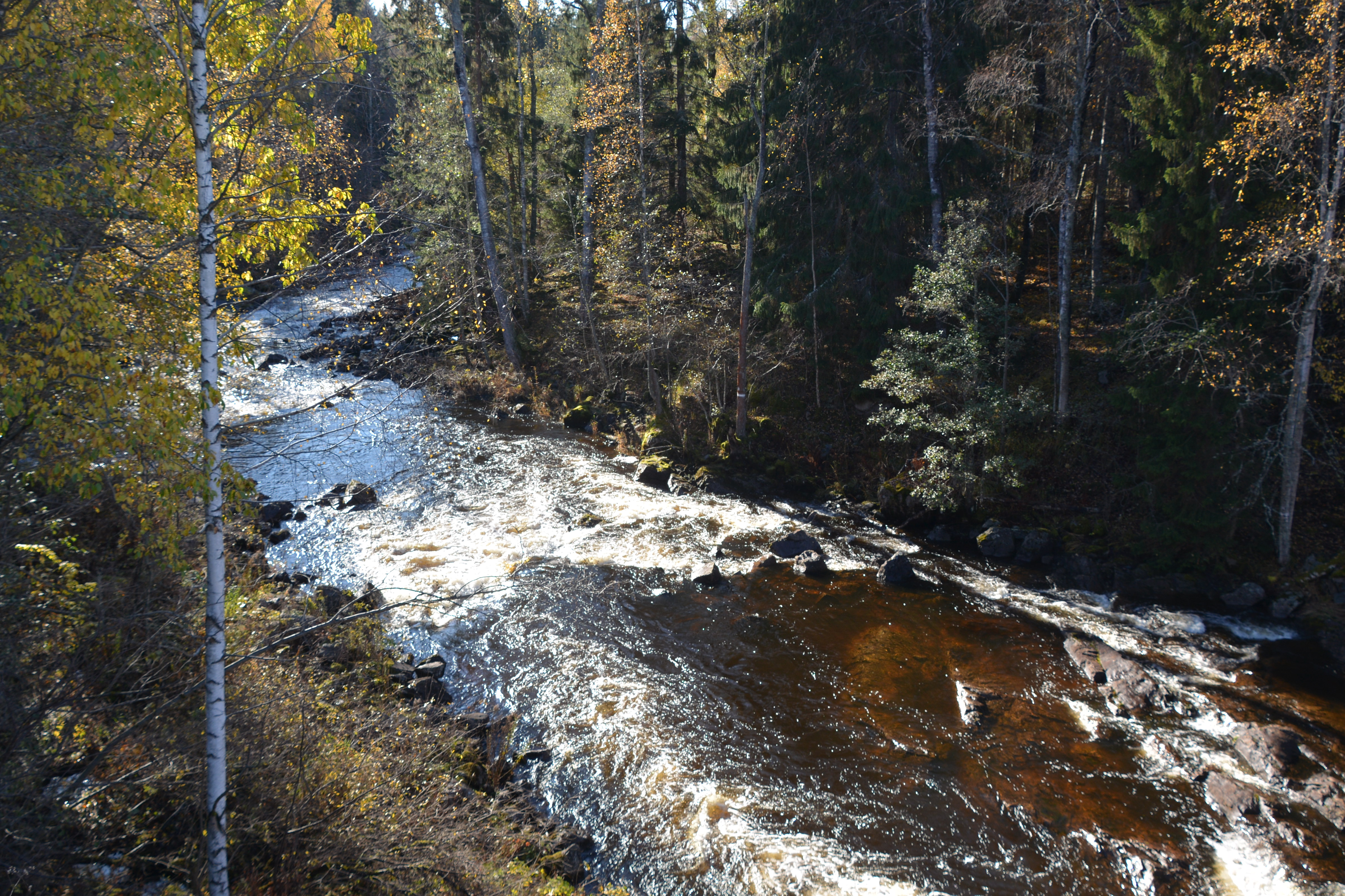 Storån vid länsväg T865-bron nordväst om Stråssa